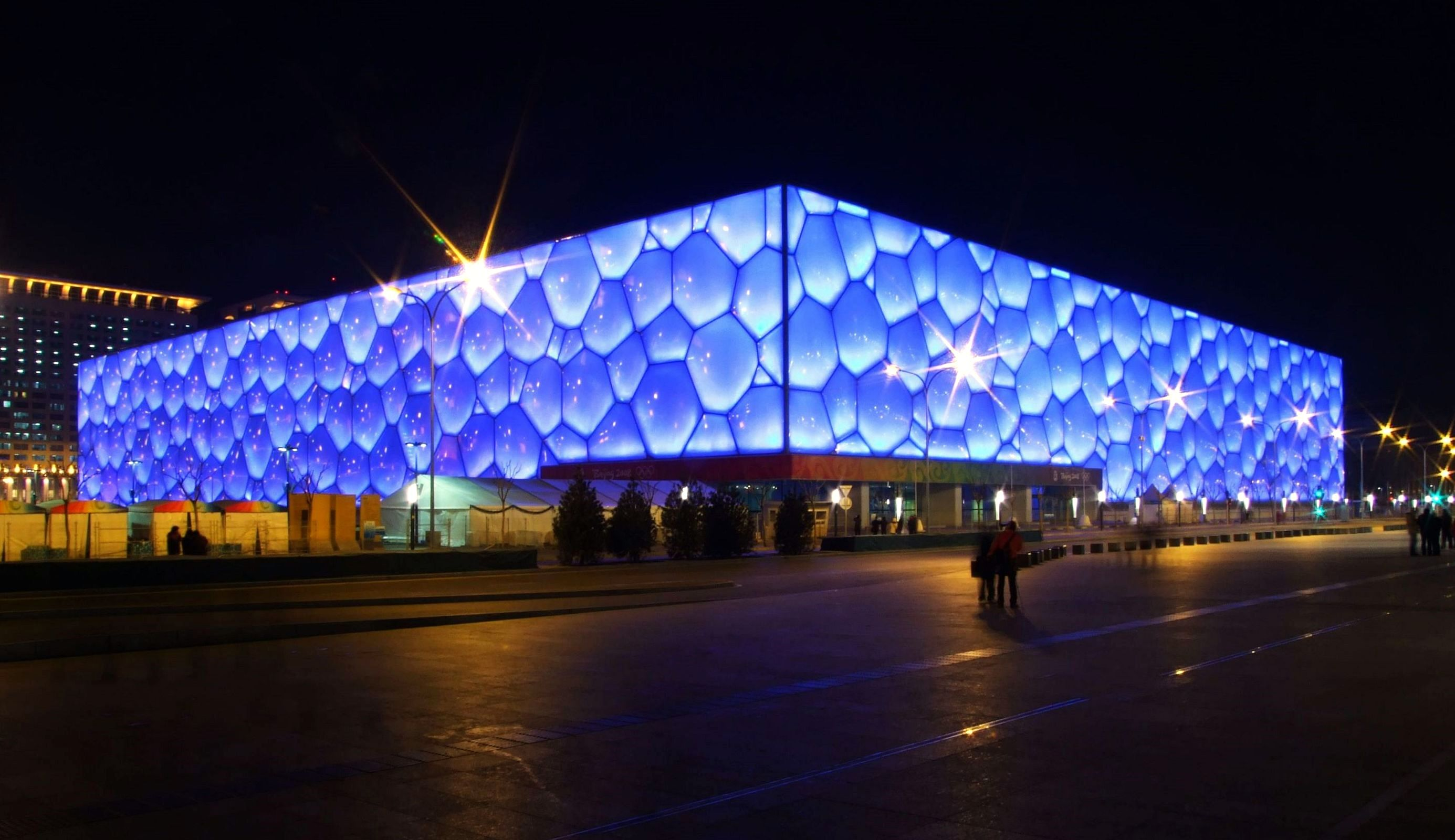 The night view of Beijing National Aquatics Center 中文（中国大陆）: 中国国家游泳中心夜景